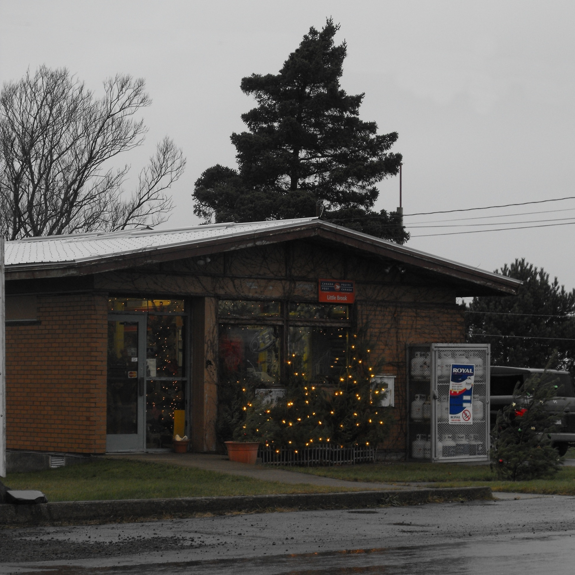 Post office in Little River, Digby County, NS. This particular facility may no longer be a federal property as there is a substantial amount of modification apparent (2012).